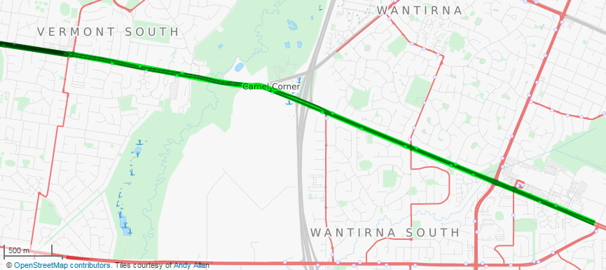 A map of the proposed extension to the Route 75 tram in Melbourne ending near to Knox City Council Precinct. Dark green (on the left) shows the current route, light green shows the proposed route, red lines show bus routes. Created with OpenStreetMap and .